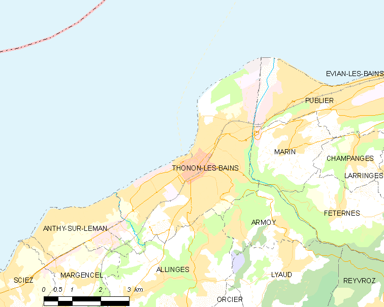 Map of French municipality Thonon-les-Bains